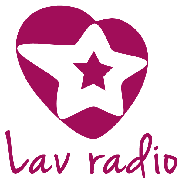 Lav Radio Logo